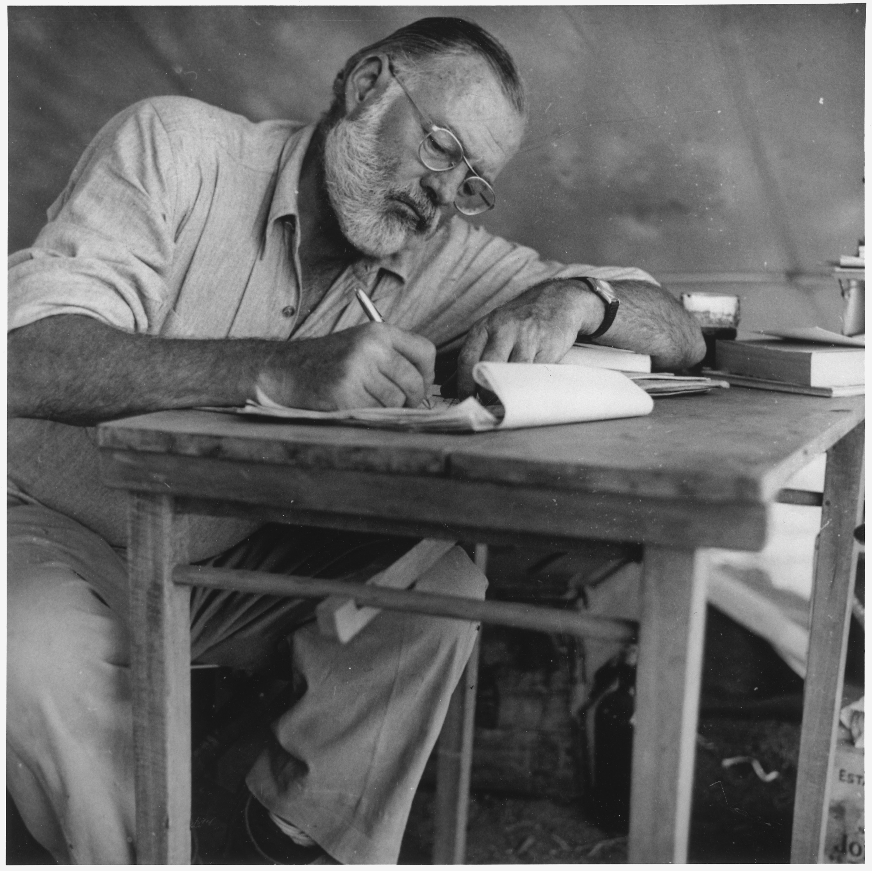 Scope and content: Photograph of Ernest Hemingway sitting at a table writing while at his campsite in Kenya.